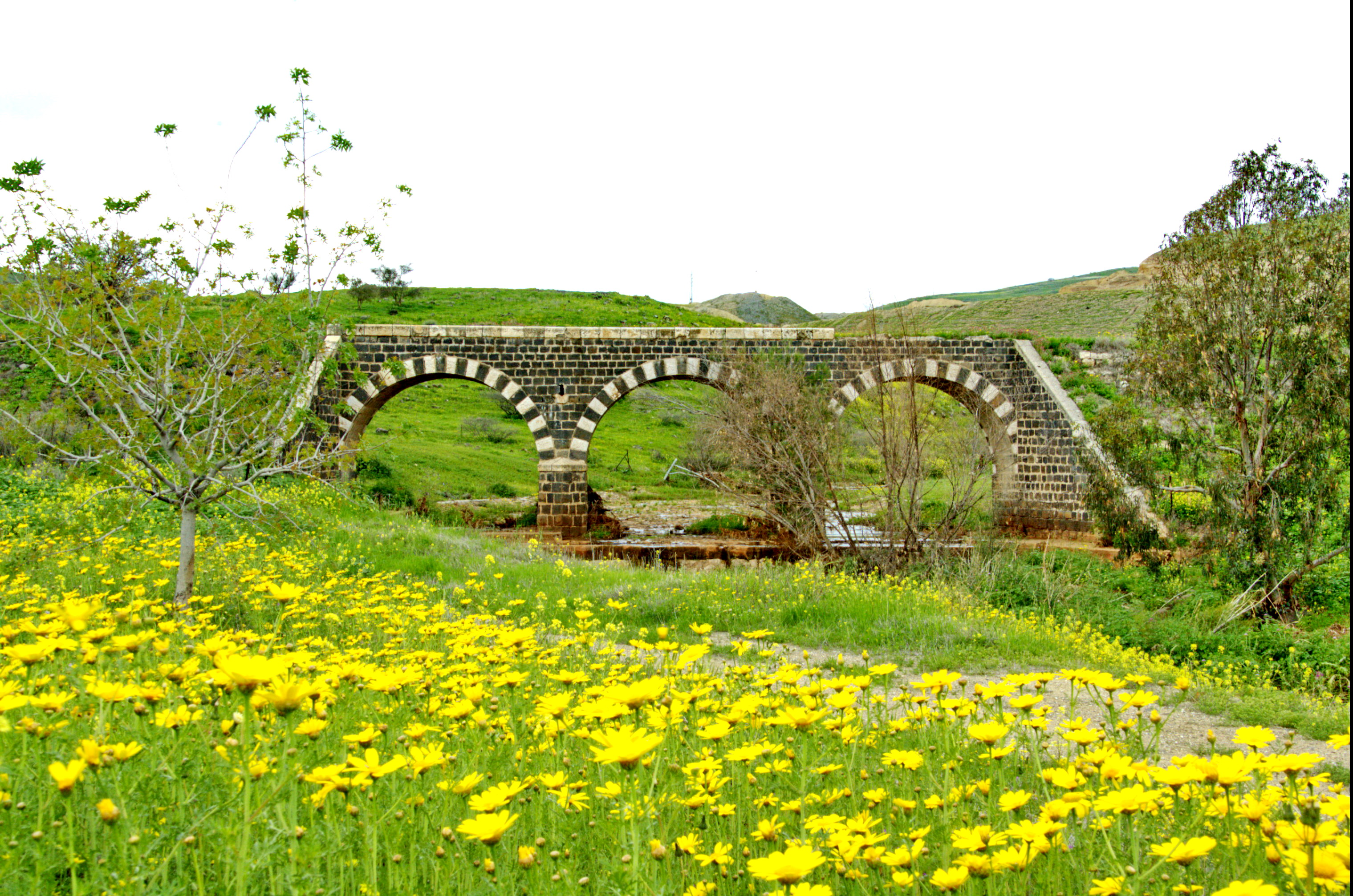 Bridge on the old Jezreel Valley Railway route